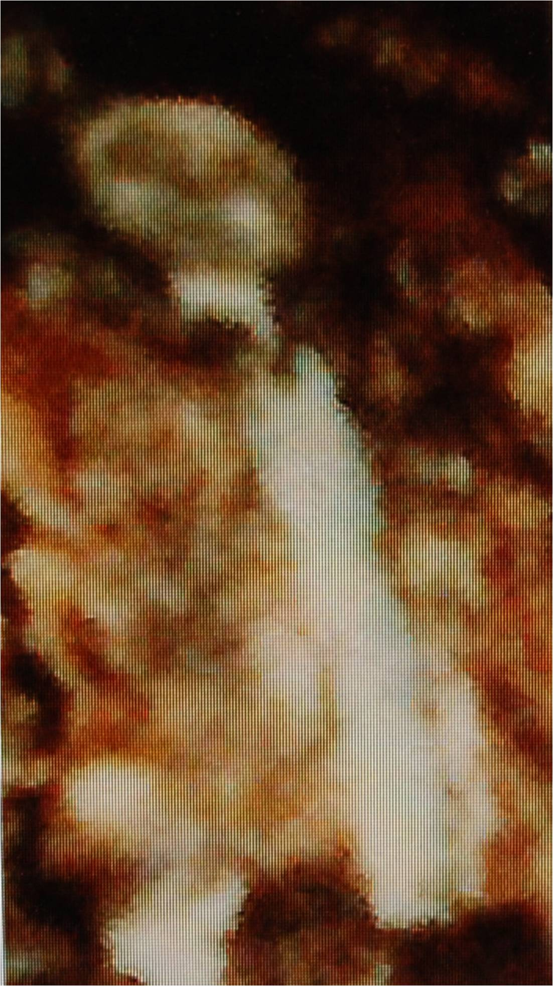 Watch worn by an unidentified woman found in Lake Panasoffkee, Florida in 1971